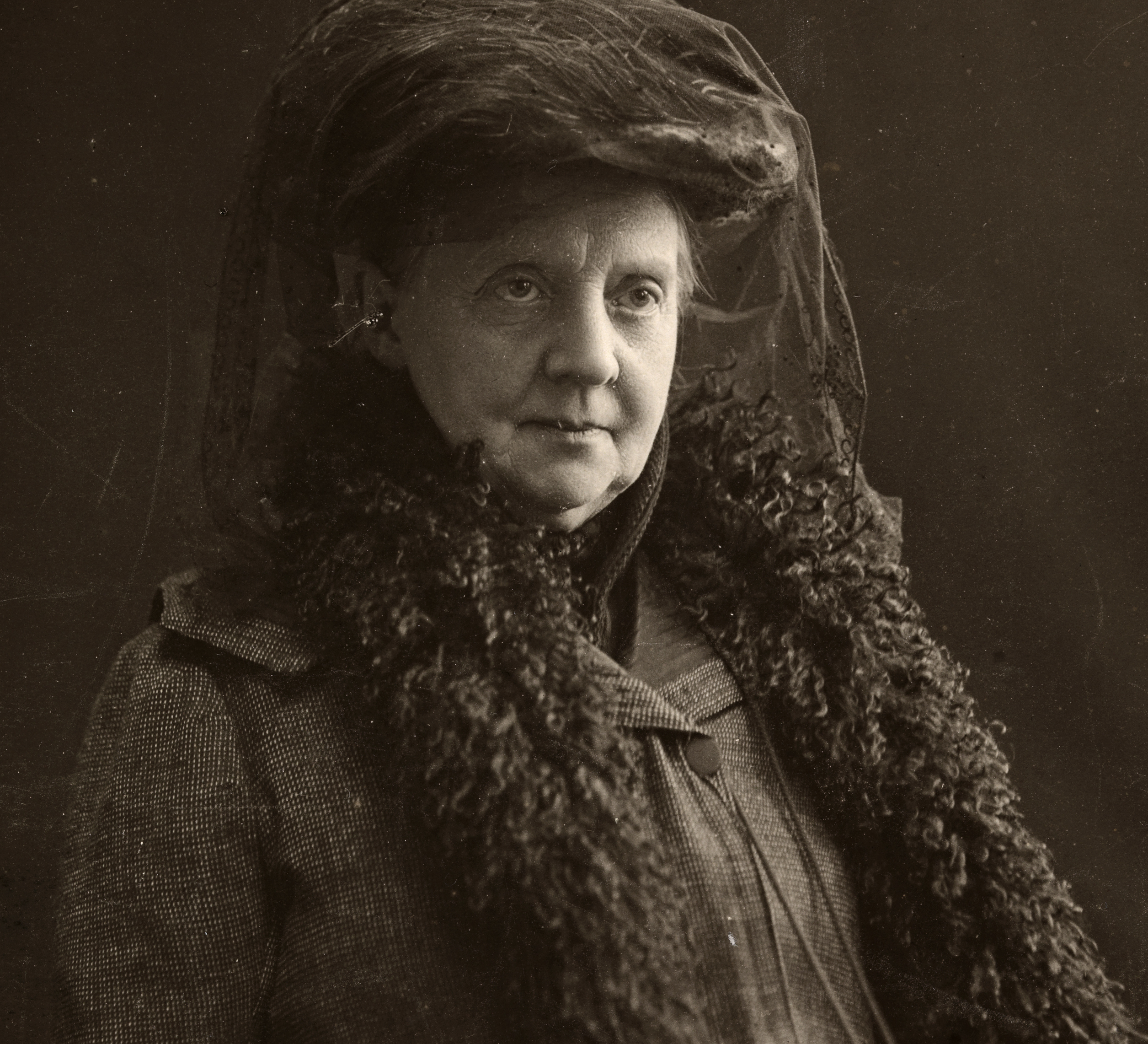 Fredrikke Marie Qvam, ca. 1913